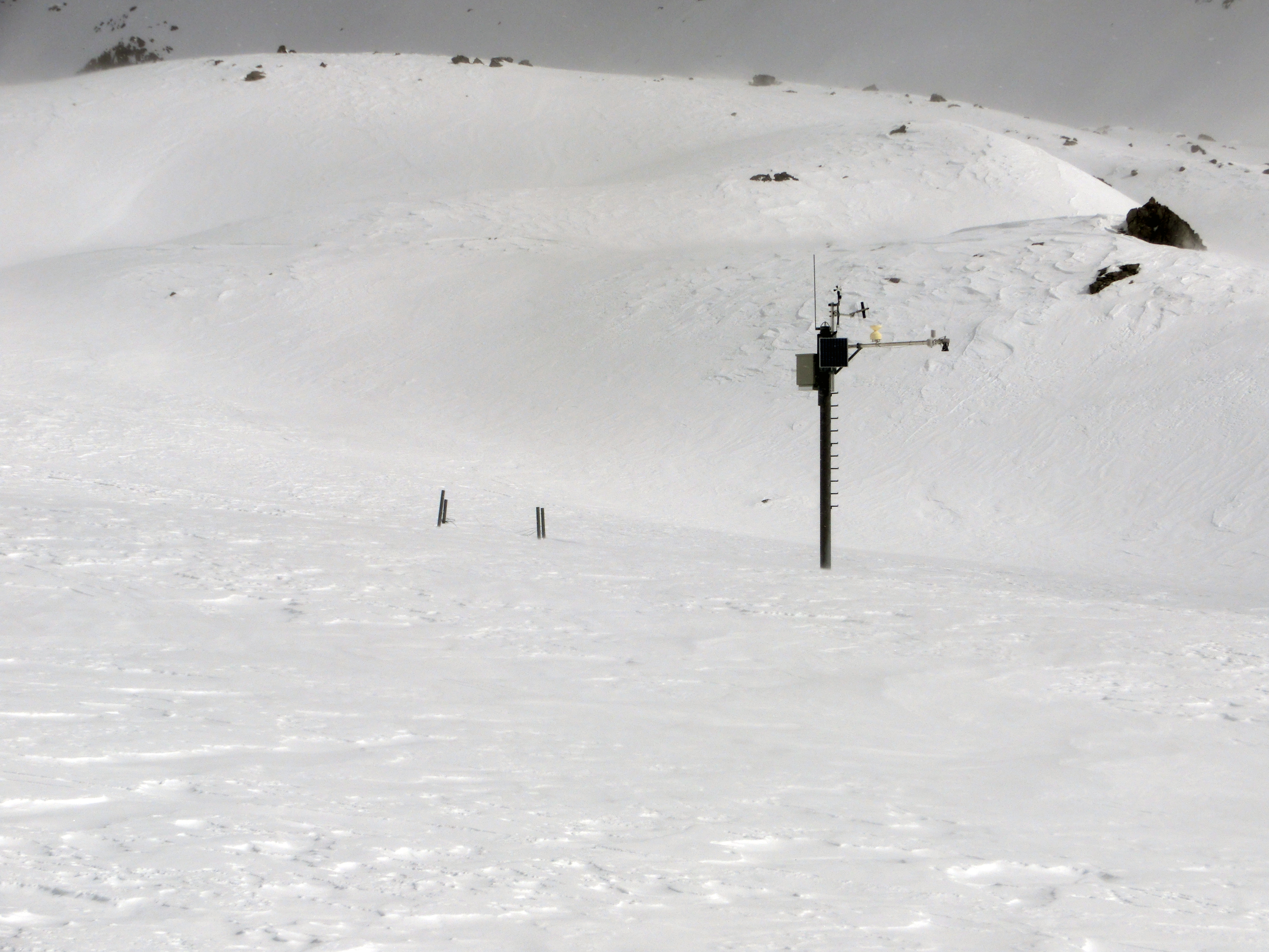 Weather station in Bärentälli (Davos, Grison, Switzerland)